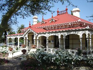 Kya Rosa building at the entrance to the Hatfield campus of the University of Pretoria ↑ University of Pretoria Historic Overview ↑ a b Kya Rosa - Tuiste van Alumni